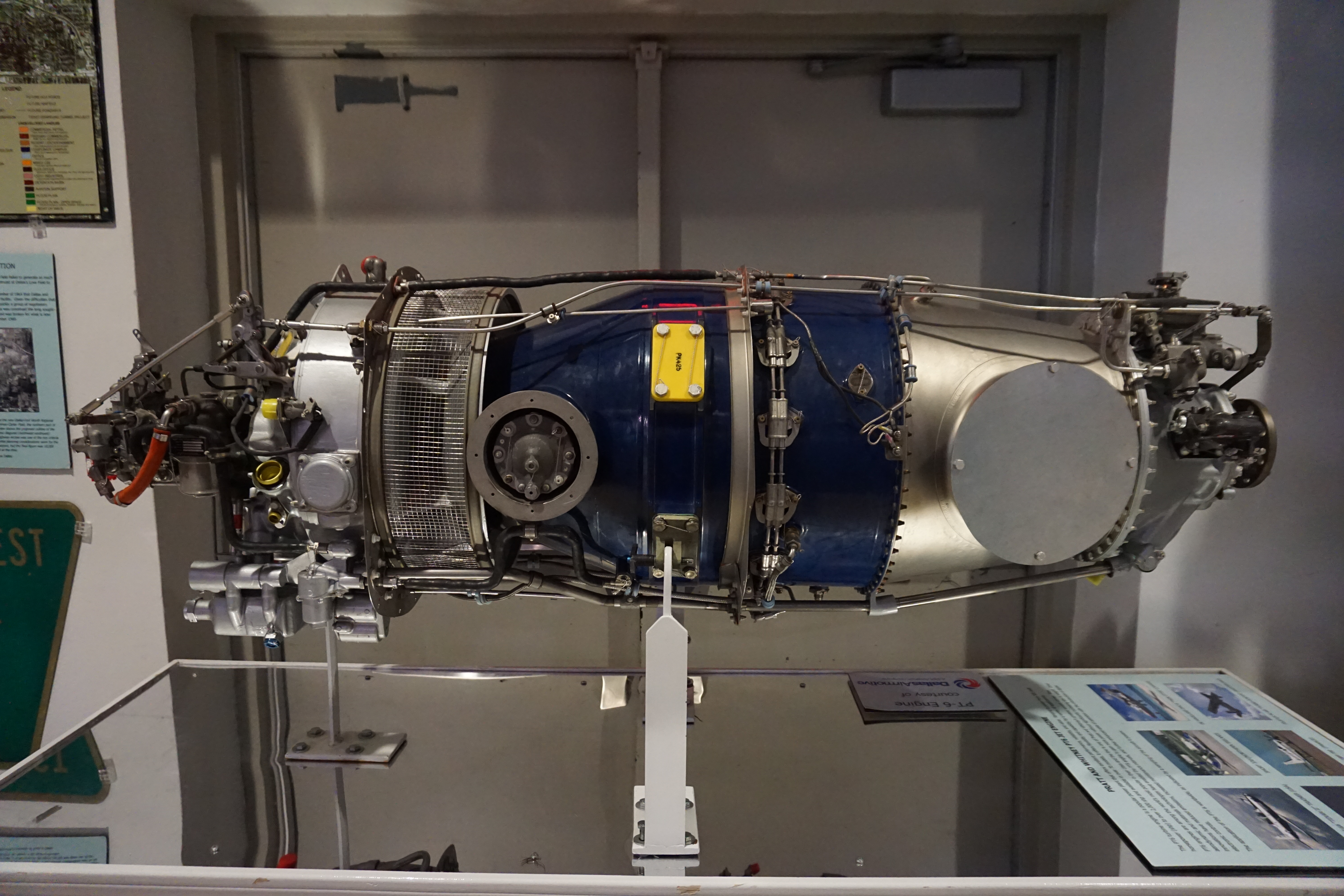 A Pratt & Whitney Canada PT6 turboprop engine on display at the Frontiers of Flight Museum at Dallas Love Field in Dallas, Texas (United States).